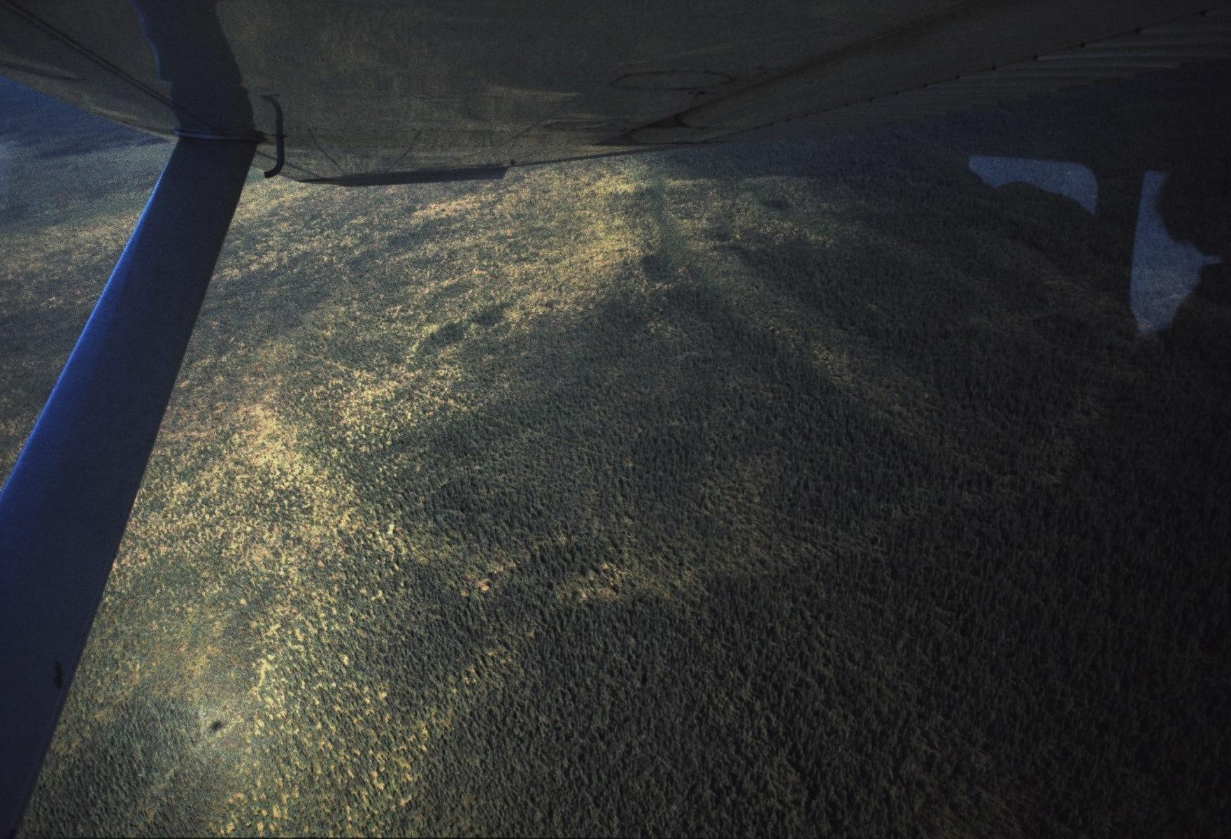 A forest ring from northern Ontario, visible from an aircraft